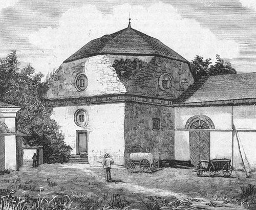 Reformed church in Paniowce